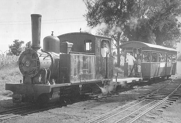 Minami-Daito Island Sugar cane tram